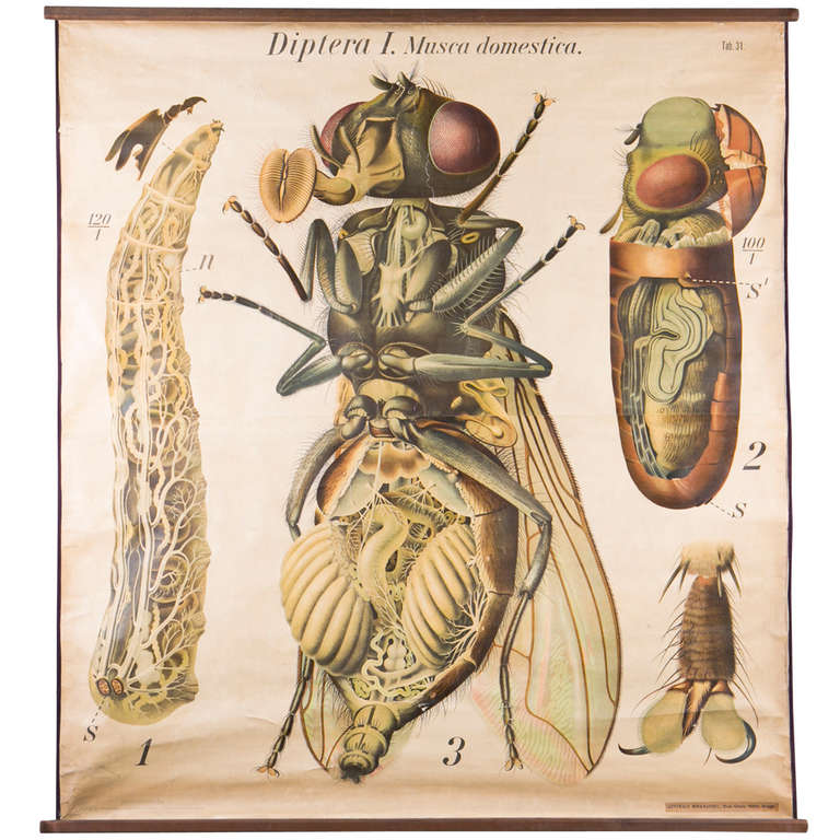 Anatomy of common housefly - wall chart by Paul Pfurtscheller